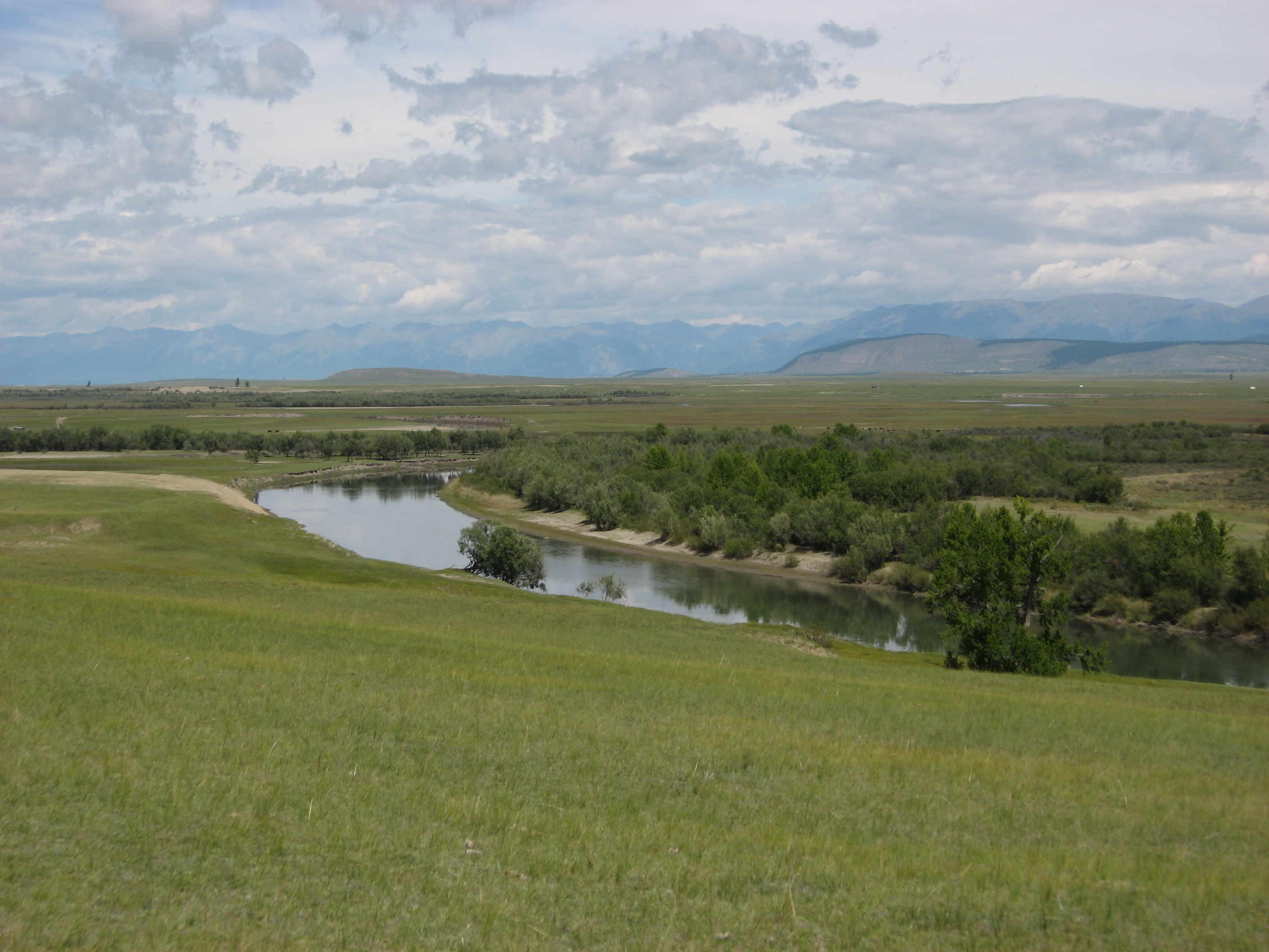 Shishged gol, some km SW of Renchinlhumbe sum center. Direction of view is roughly NE.